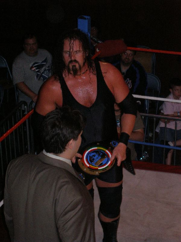 Professional wrestler Rick Fuller as the Top Rope Promotions (TRP) Champion at TRP's Kowalski Cup show on May 4, 2007.